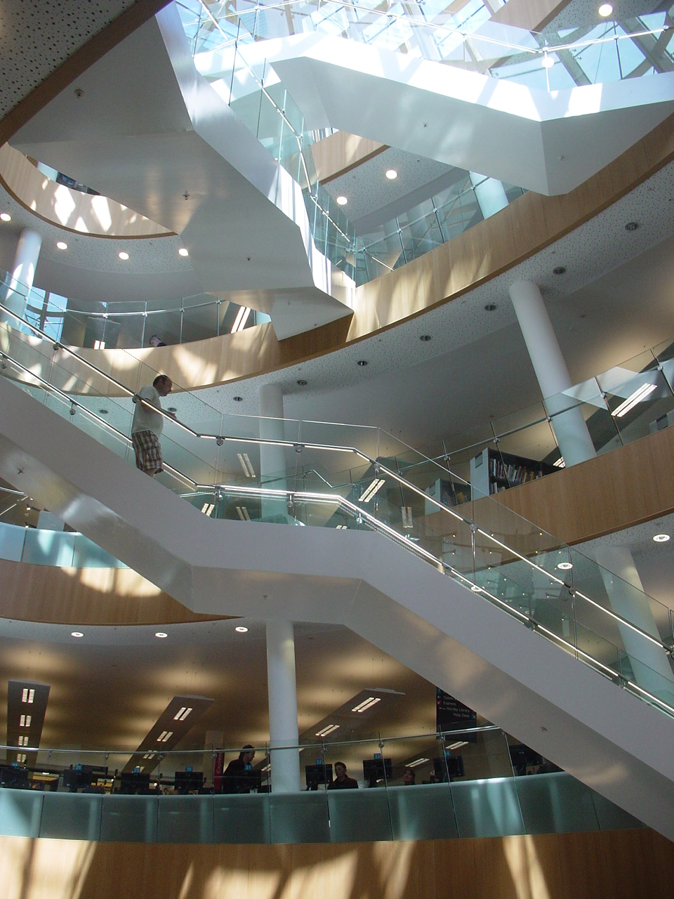 The new (as of 2013) interior of Liverpool Central Library, England.